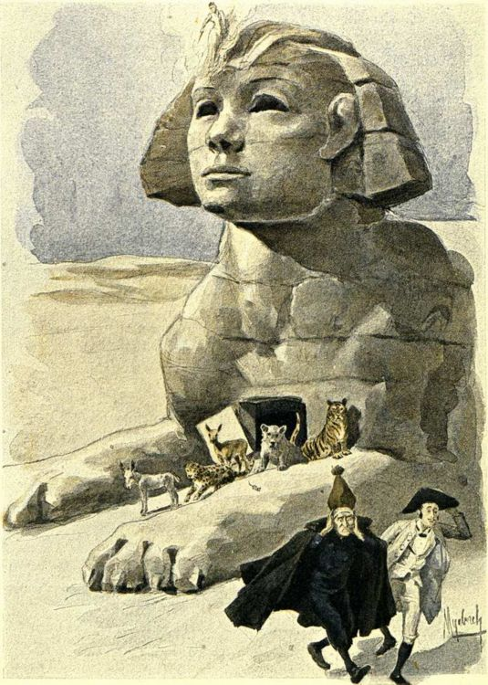 An illustration from Jules Verne's short story "Aventures de la famille Raton" (1866-69) Orginal description taken from the book